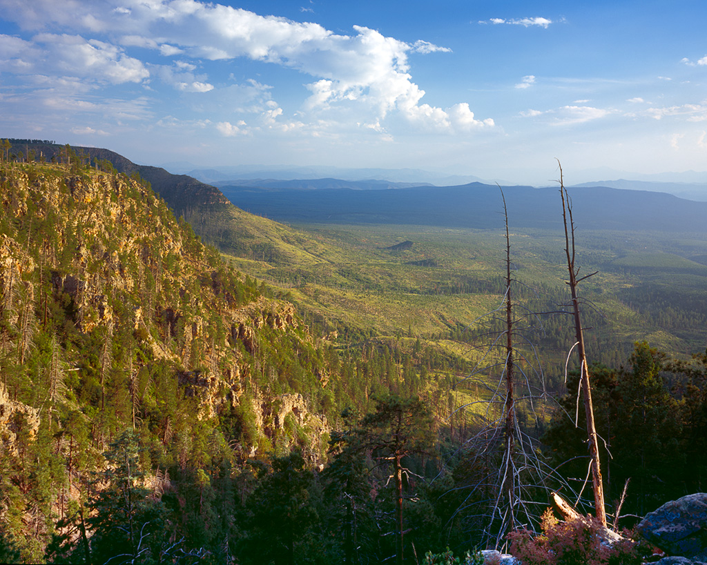 Photographed by Doug Dolde from the Mogollon Rim above Payson, Arizona, 2005. The prominent outcropping is Myrtle Point. Arca Swiss 4x5 view camera, Fujichrome Provia 100F transparency film. More images from this location at